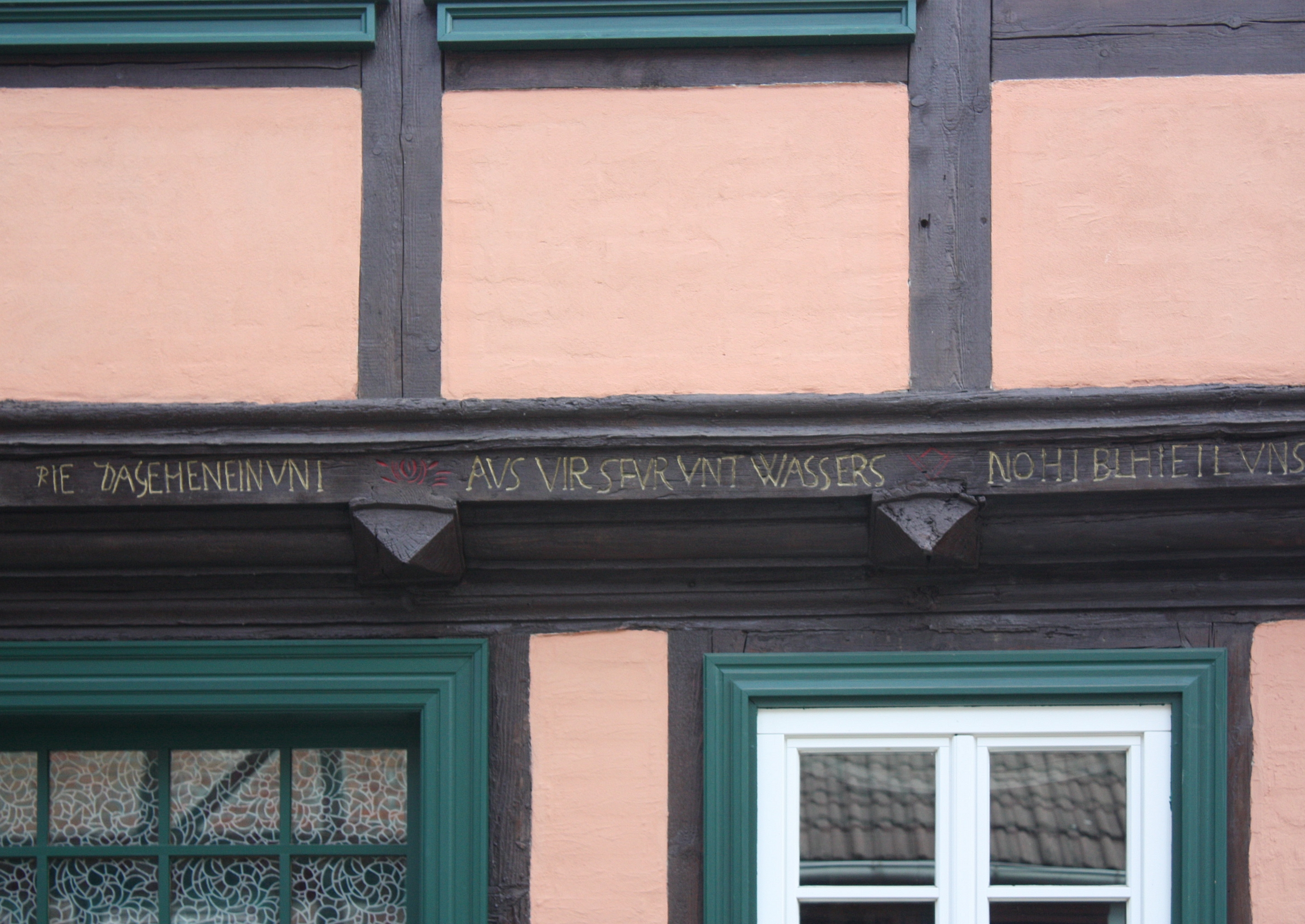 This is a photograph of an architectural monument.It is on the list of cultural monuments of Quedlinburg Augustinern 70 in Quedlinburg